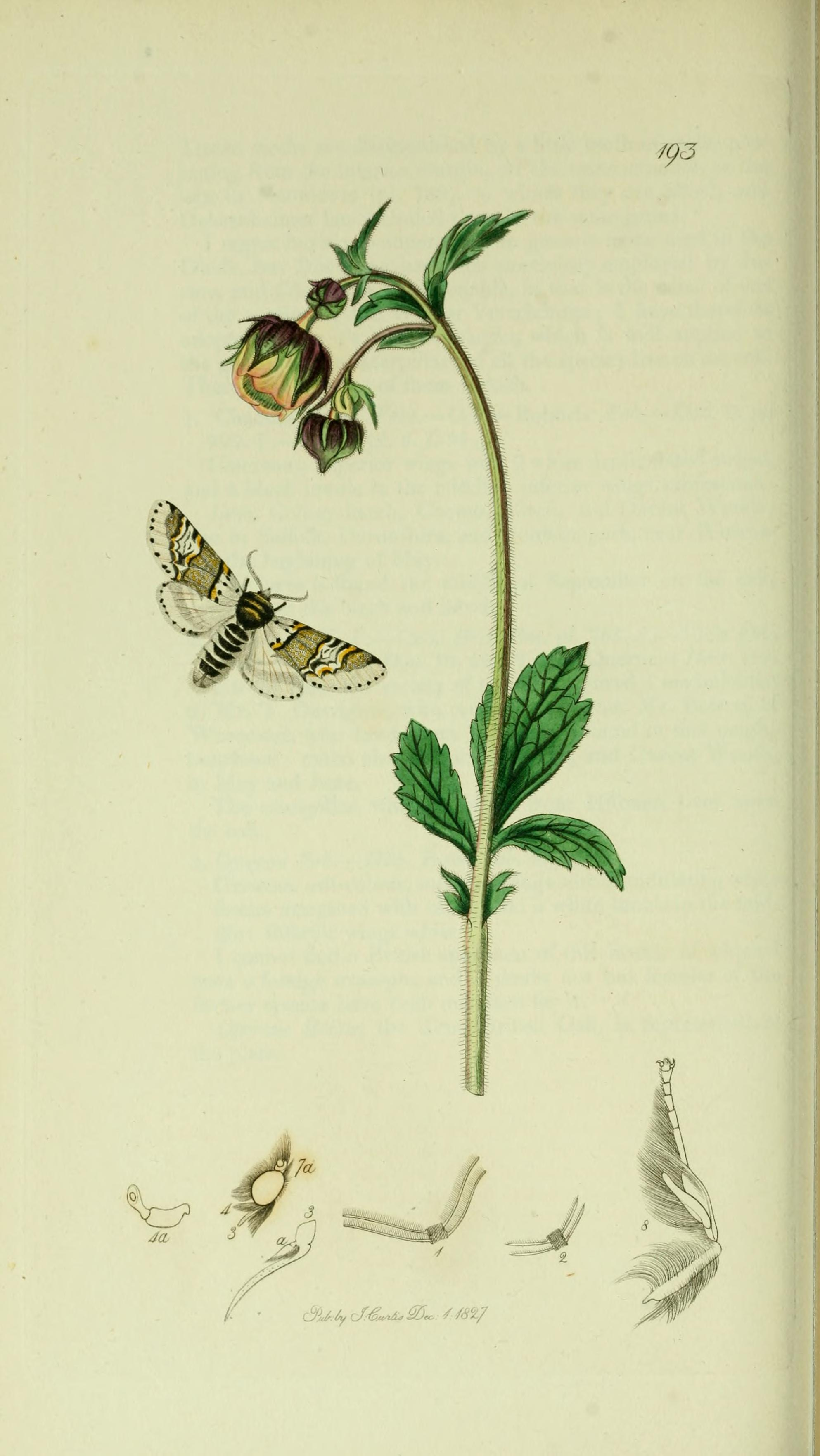 An illustration from British Entomology by John Curtis. Cerura latifasciata or Harpyia bifida or Furcula bifida (Poplar Kitten).